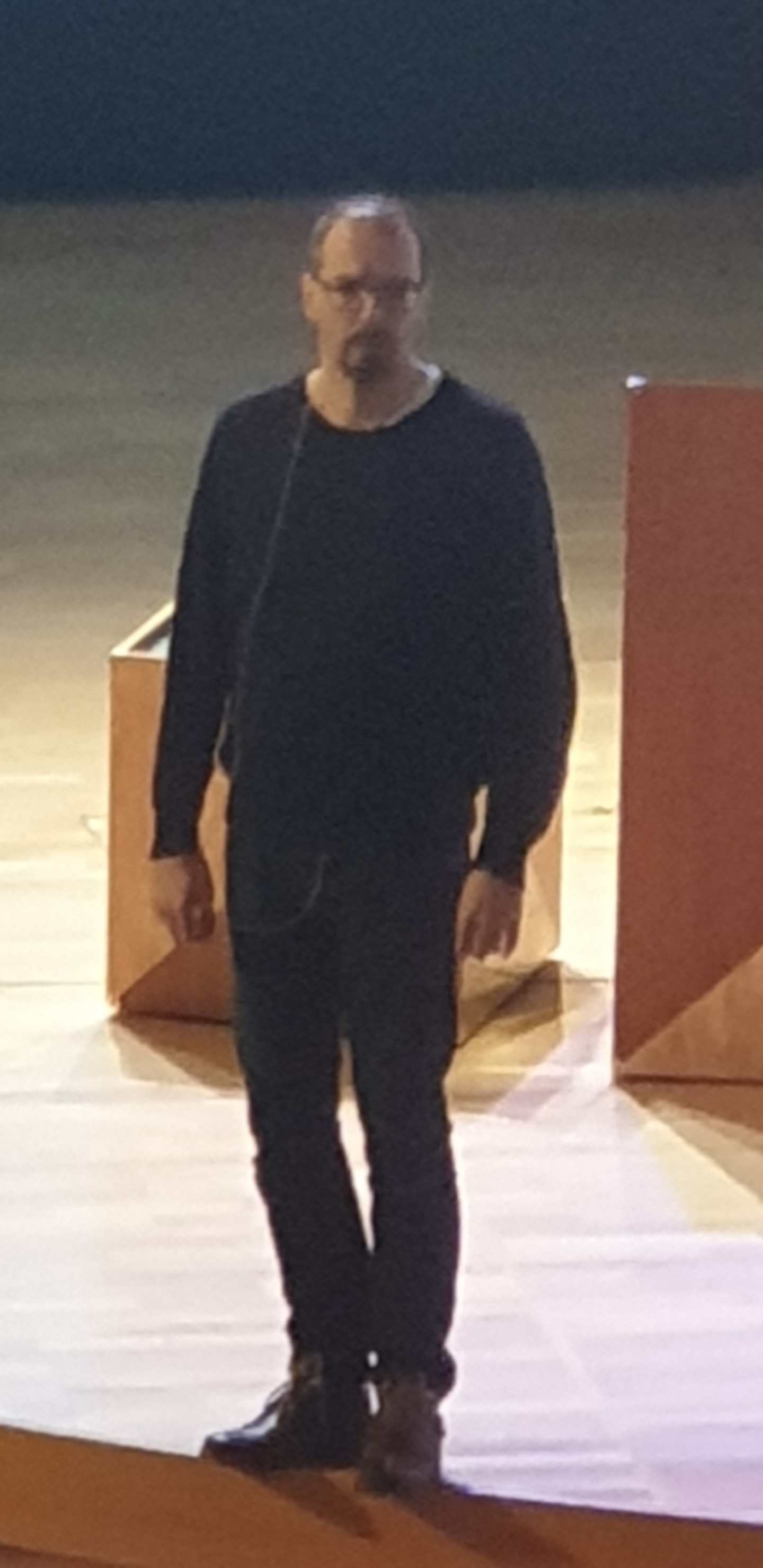 Tommy Jensen, February 2019.